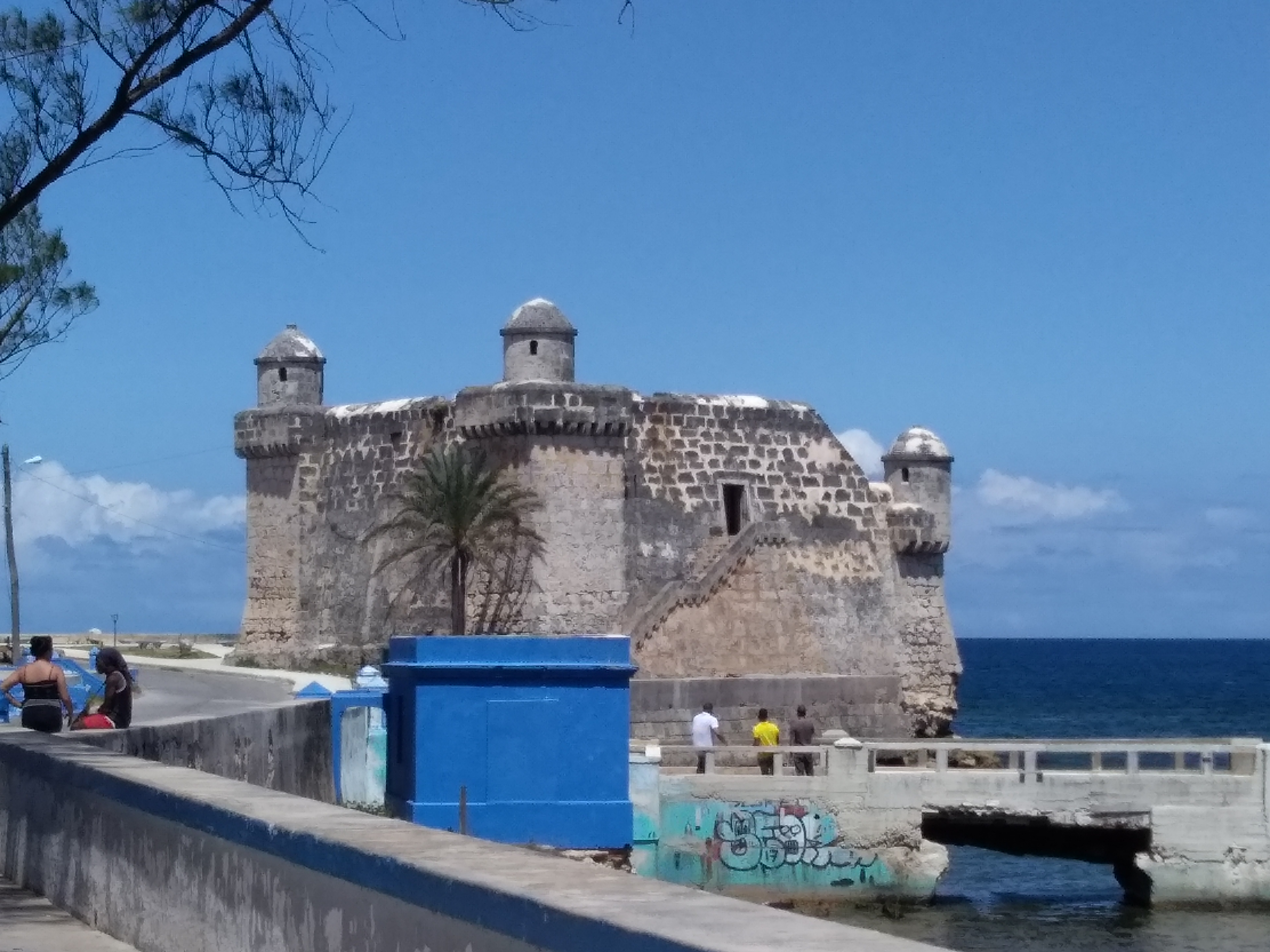 Torreón